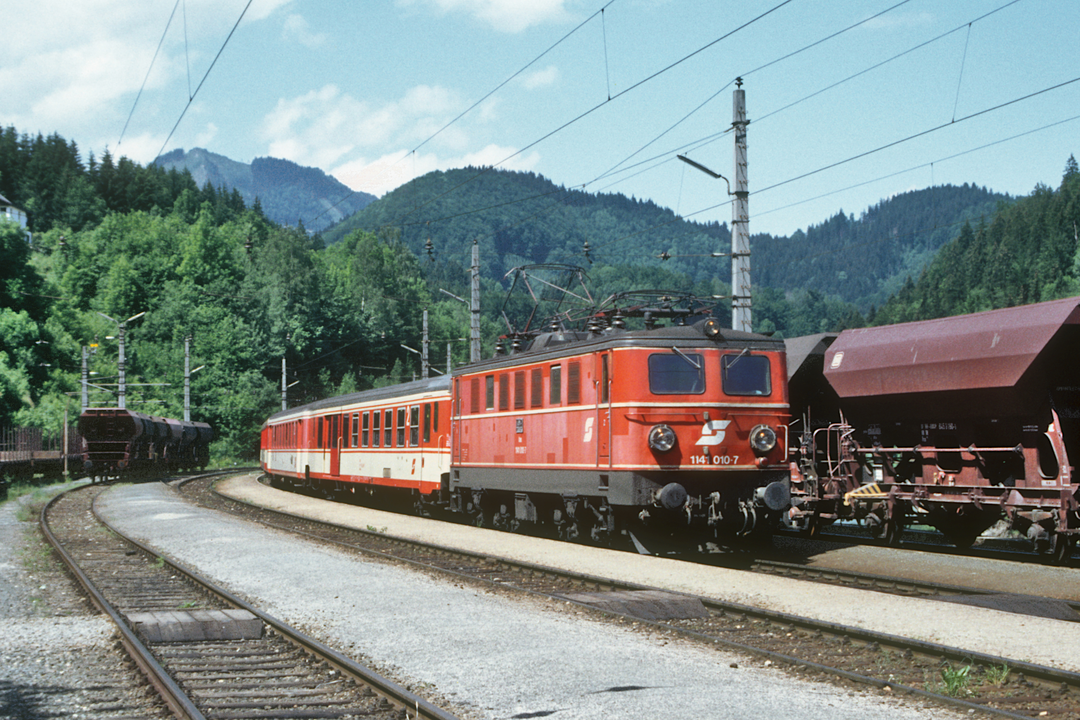 Local train with 1141 010 at Weißenbach-St. Gallen station on the Enns valley line. The vehicle body is still in original condition with 4 cab doors.